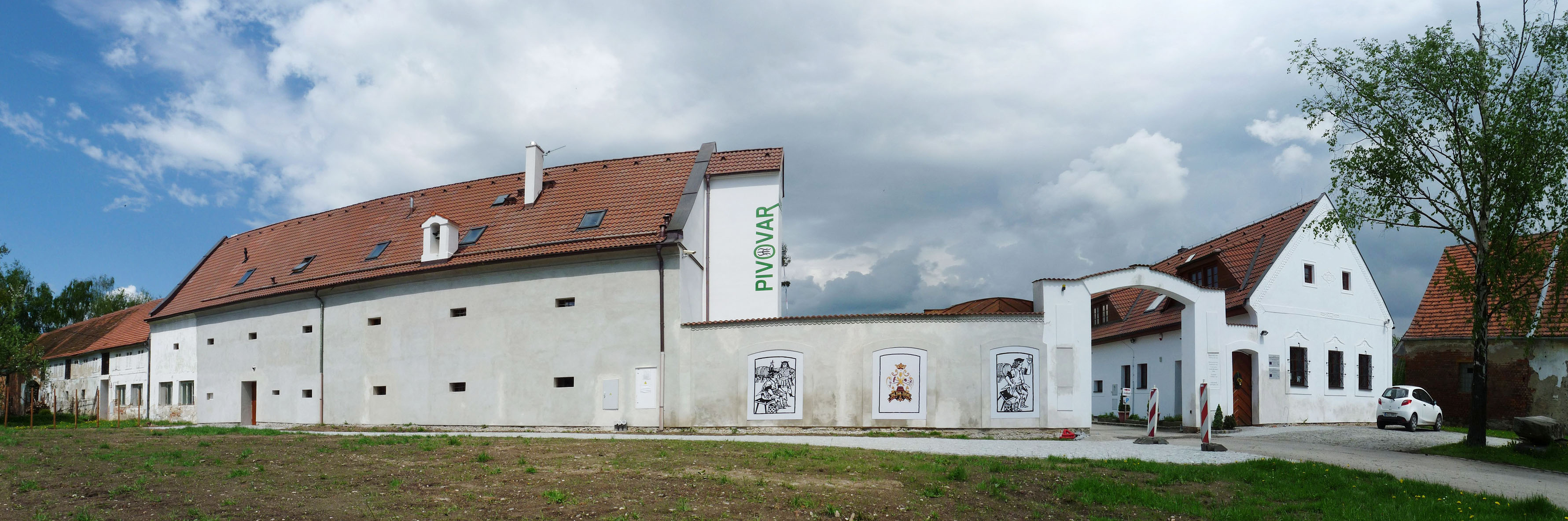 House No 2235 in the village of Haklovy Dvory - Nové Dvory, České Budějovice District, Czech Republic.